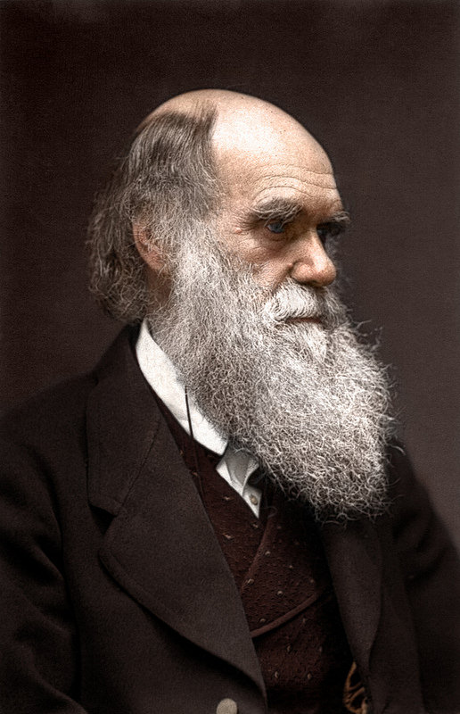 A Woodburytype carte de visite colorized photograph of Charles Darwin, published by John G. Murdoch. Although a slightly different pose, it bears similarity to an 1874 Elliott & Fry portrait.